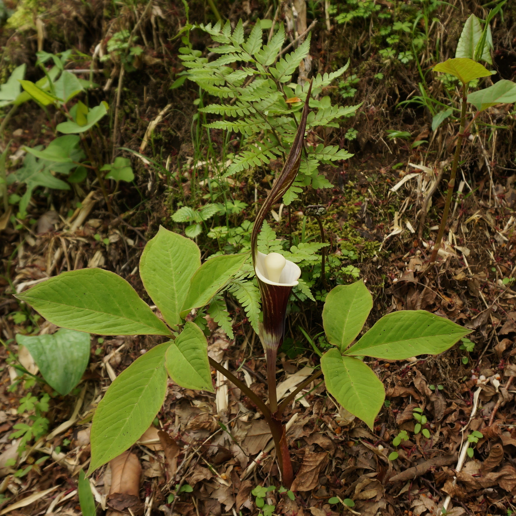 Arisaema sikokianum (Yukimochi-sou, Japanese Jack-in-the-Pulpit), May, 2015